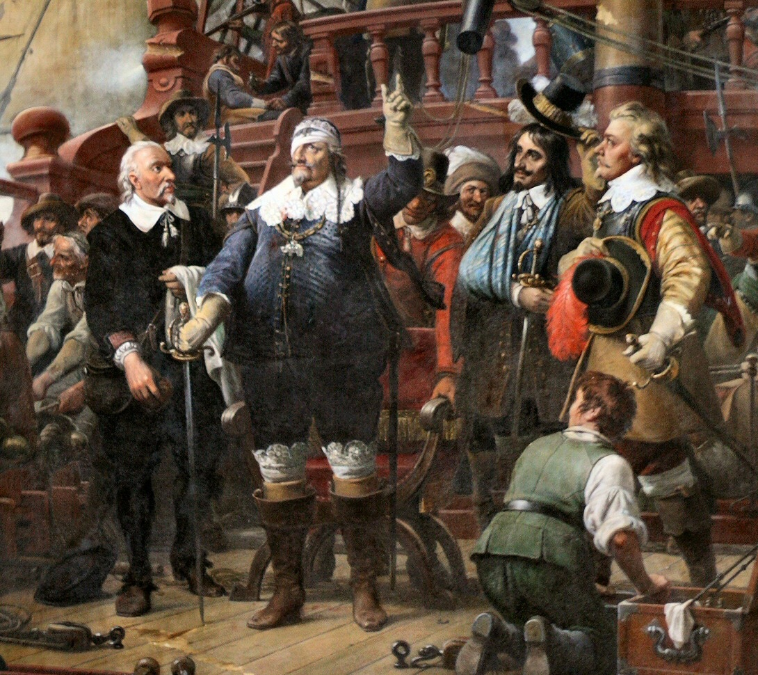 Christian IV of Denmark on the ship Trefoldigheden in the battle of Kolberger-Heide 1644, from the centre part of the painting.